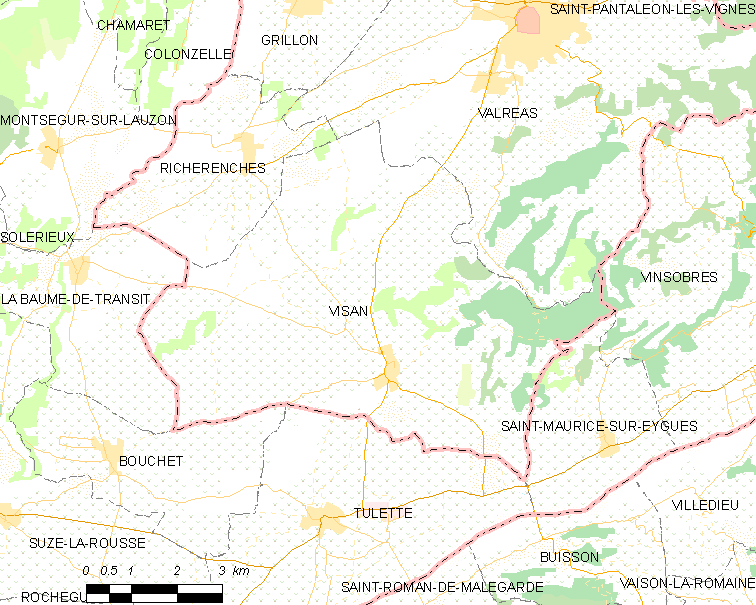 Map of French municipality Visan